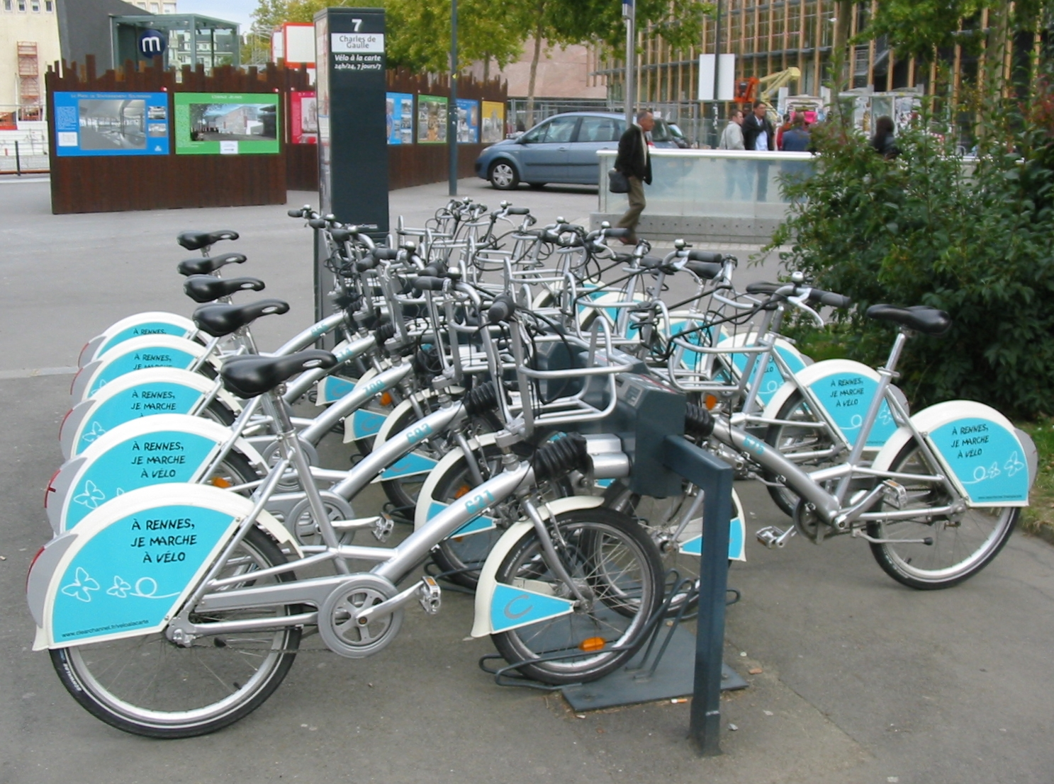 Public bicycle scheme, Rennes